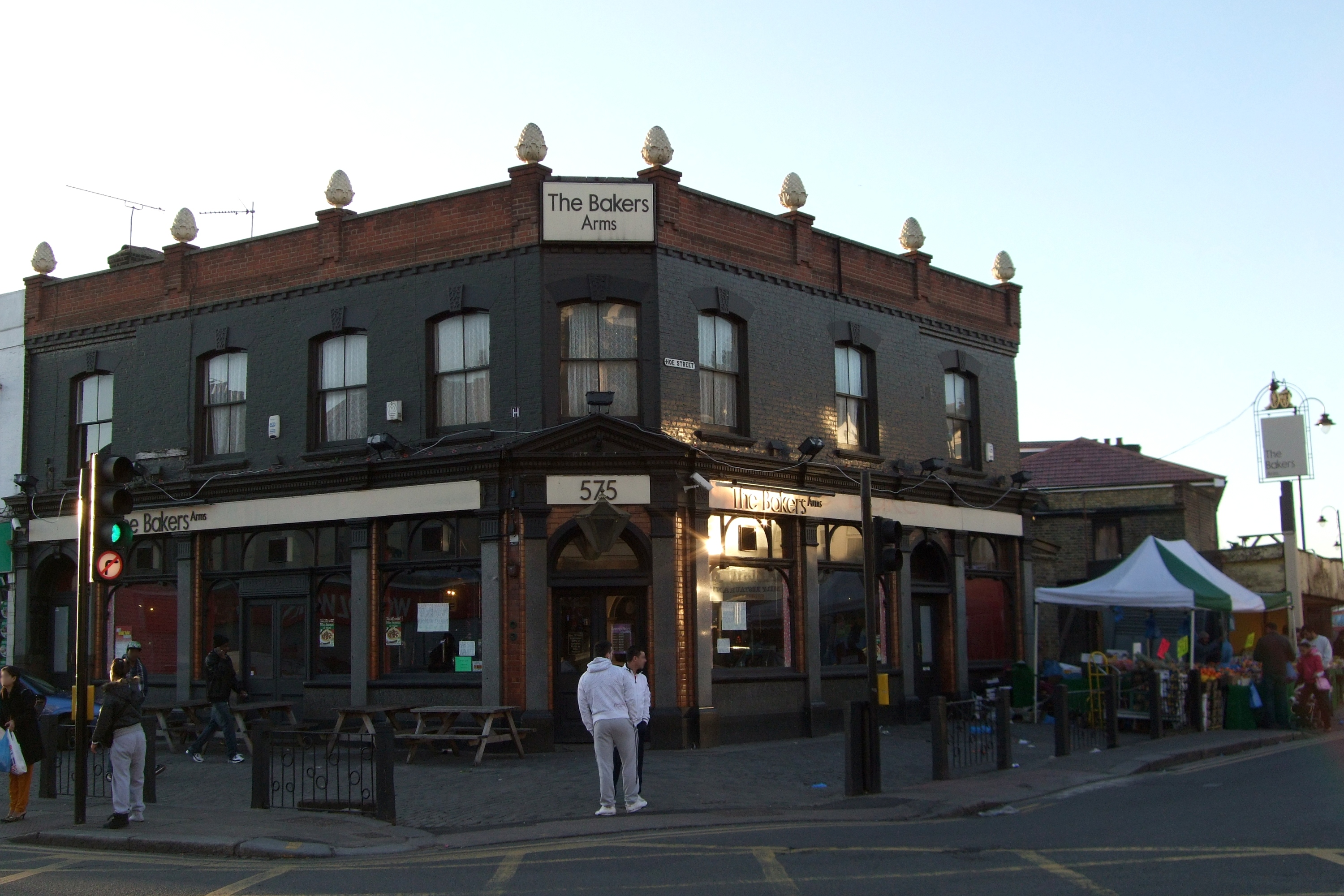 The pub which gives its name to the area around here, now closed. Address: 575 Lea Bridge Road. Owner: Punch Taverns (former); Taylor Walker (former). Links: Fancyapint Dead Pubs (history)